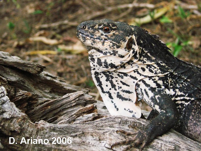 Ctenosaura palearis male iguana